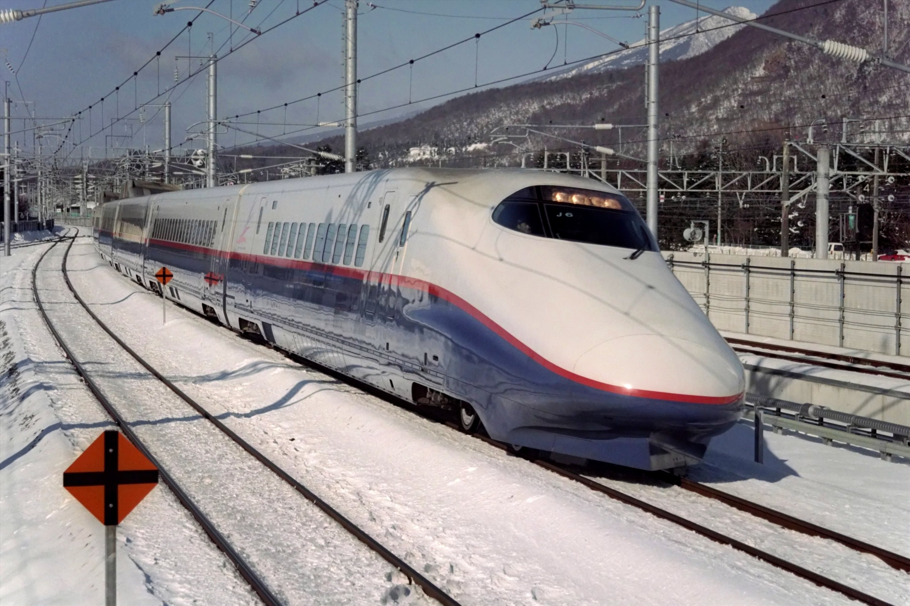 JR East E2 series shinkansen 8-car set J6 on an up Asama service approaching Karuizawa Station on the Nagano Shinkansen